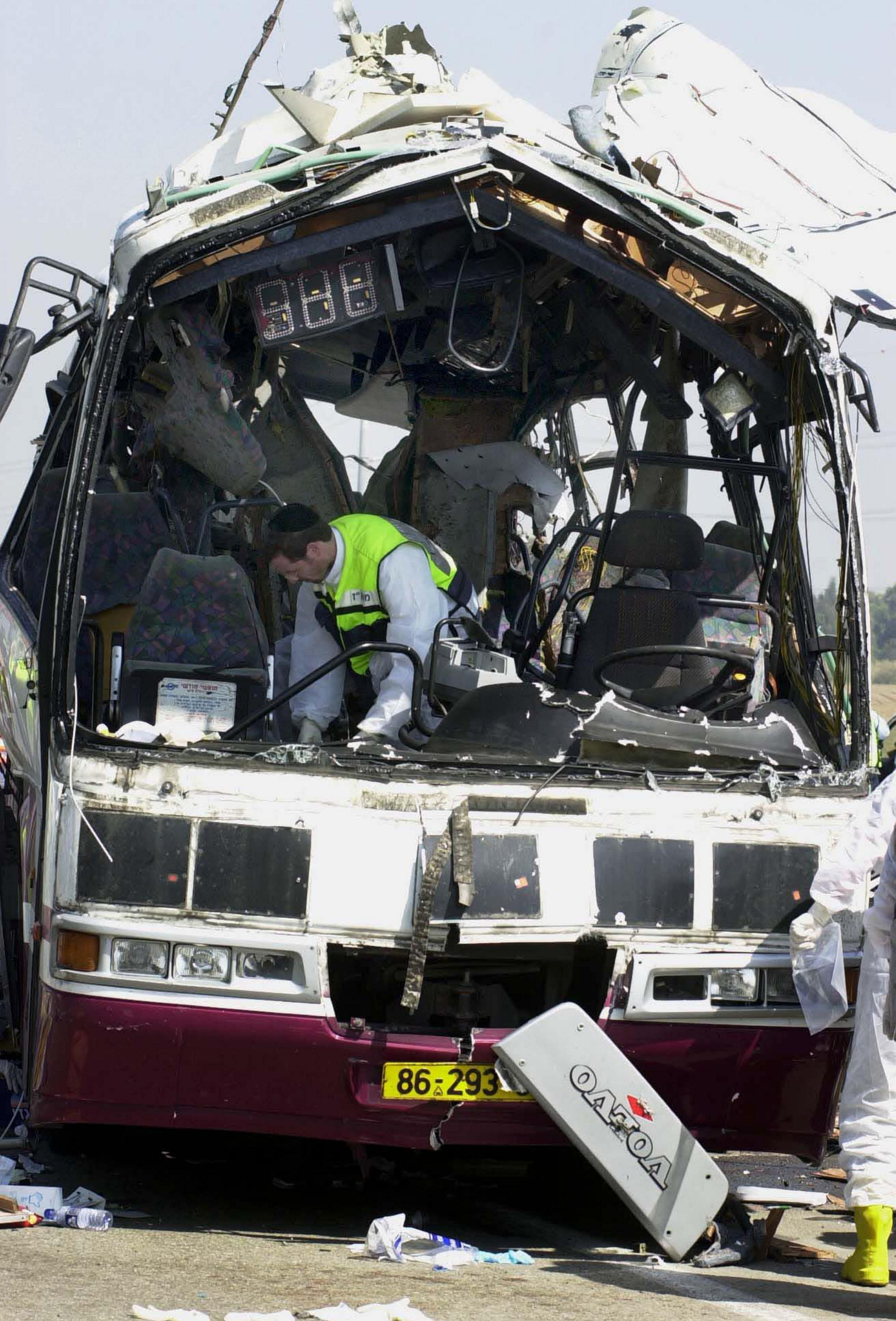 The remains of eged 960 bus, in which a Palestinian suicide bomber exploded, near Yagur junction.